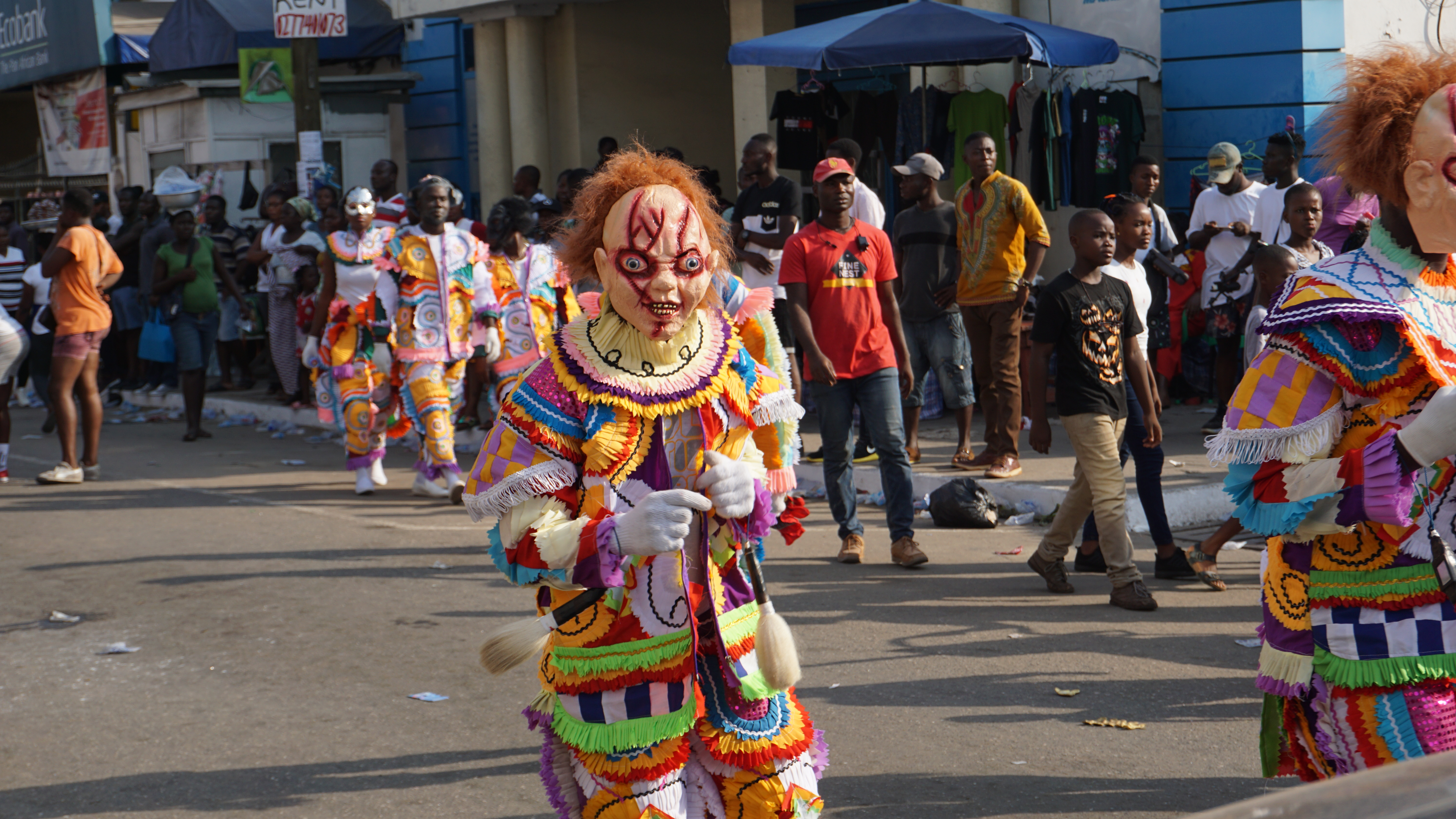 Ankos Festival also known as Masquerade Festival is an annual event celebrated by the people of Takoradi, Ghana. The picture shows a lady masquerade This photo has been taken in the country: Ghana